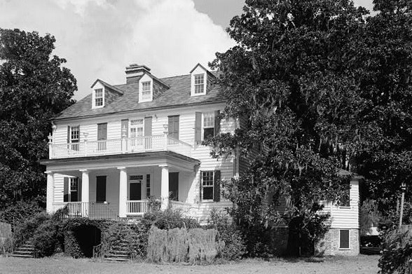 William Lucas House, U.S. Routes 17 & 701, McClellanville (Charleston County, South Carolina) (cropped)